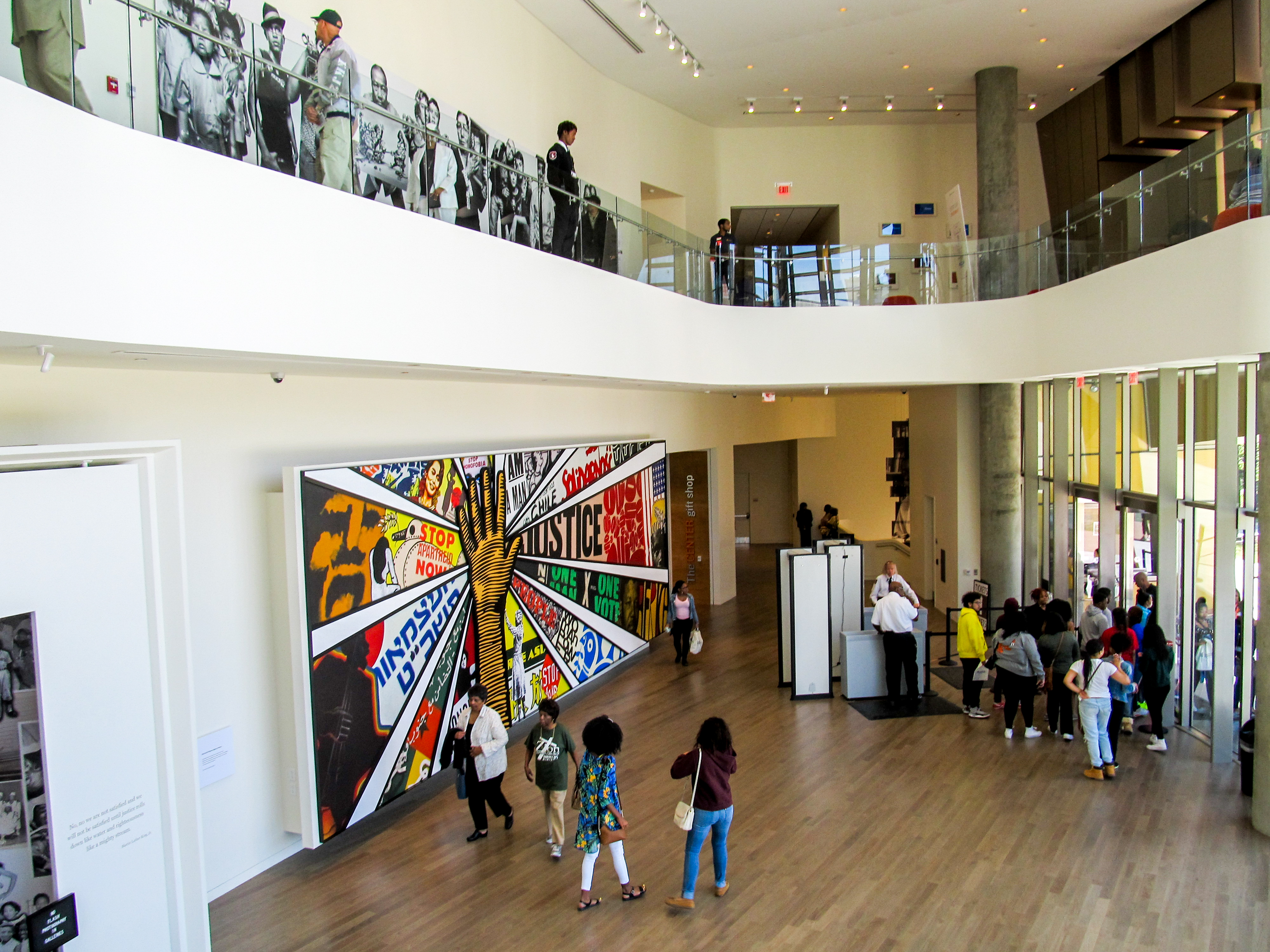 National Center for Civil and Human Rights, Atlanta, Georgia.